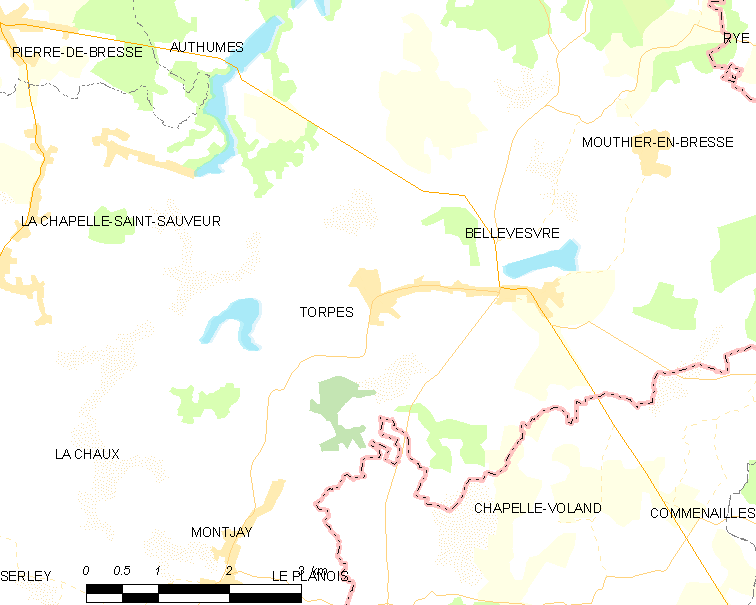 Map of French municipality